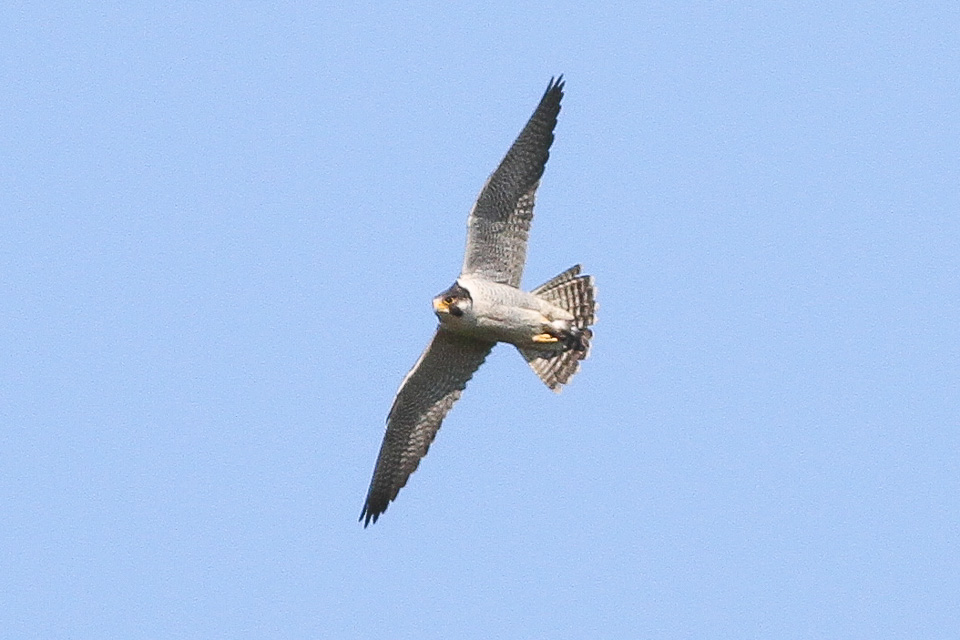 Peregrine Falcon Falco peregrinus, Chat Vale, Beachy Head, Sussex, UK.